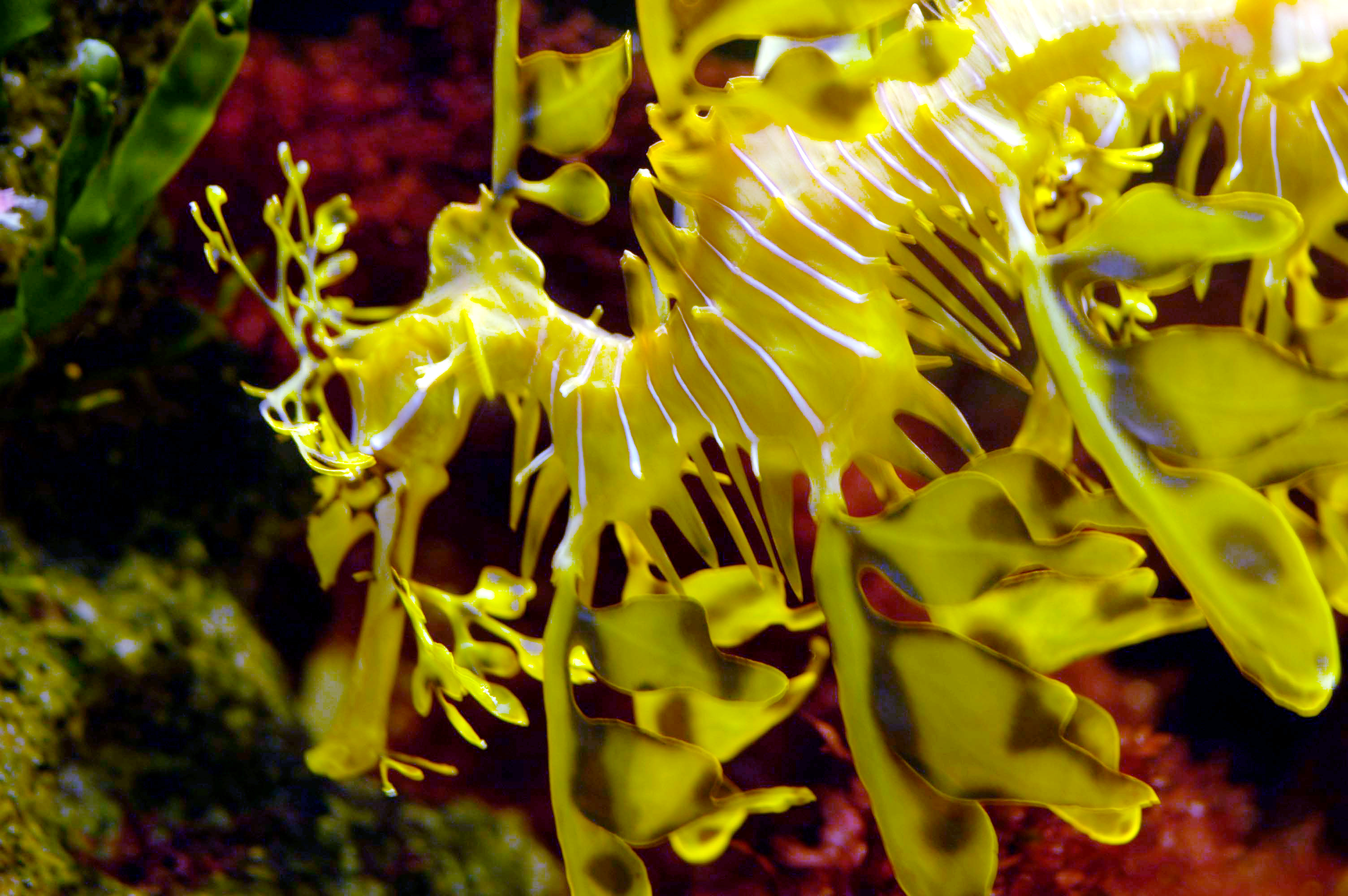 Leafy sea dragon